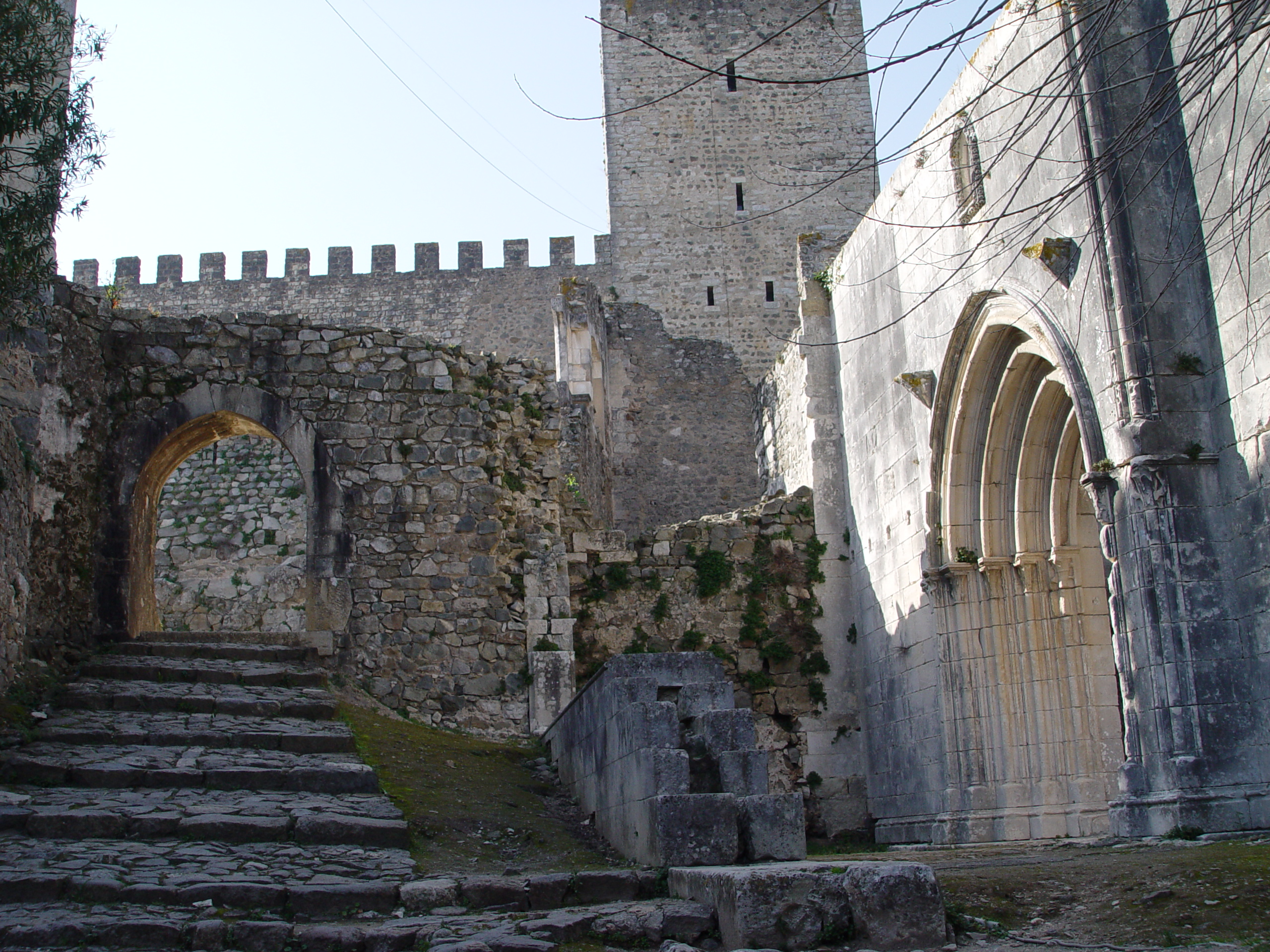 Author: Orium